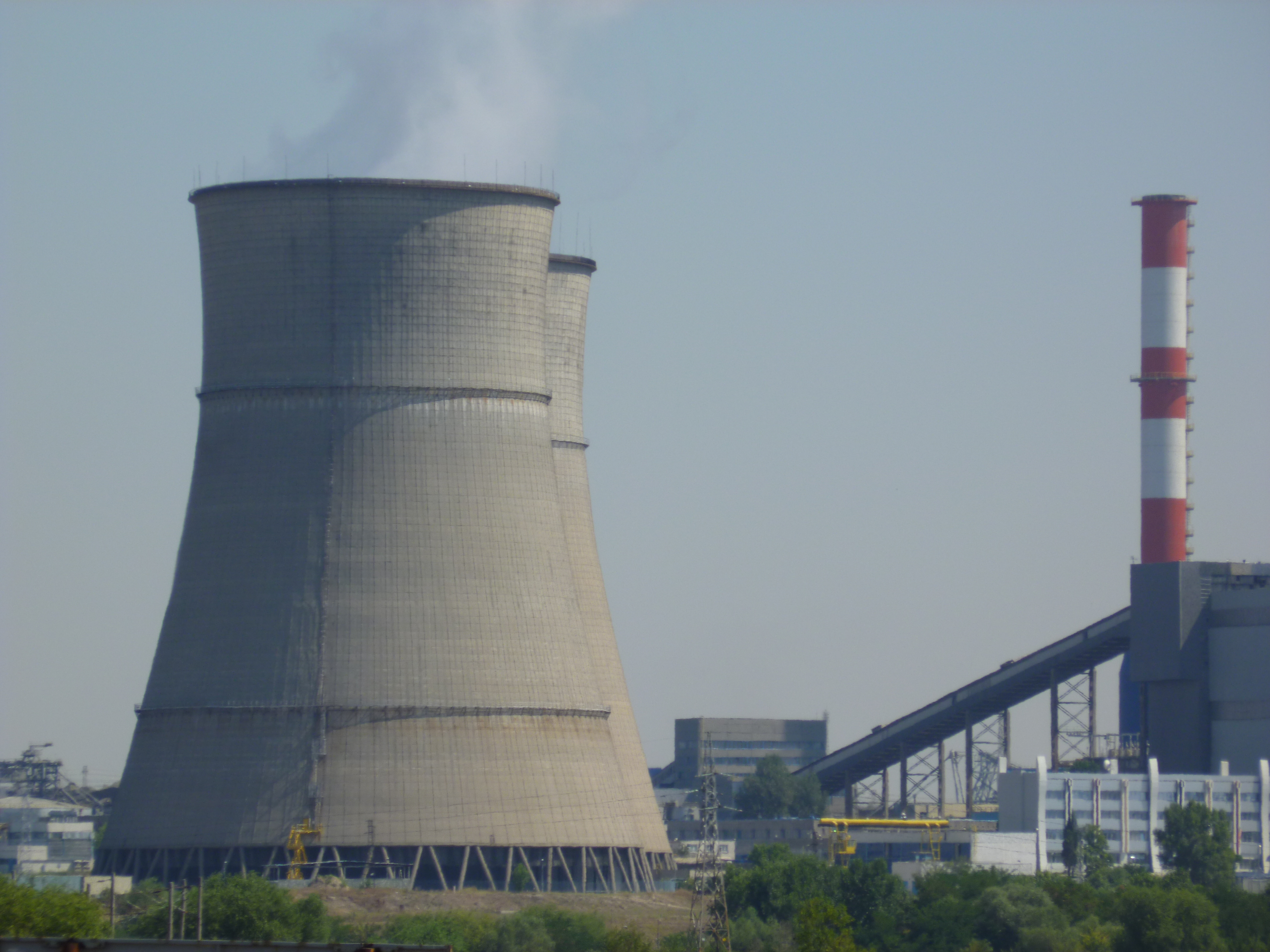 TEC MARITSA 3